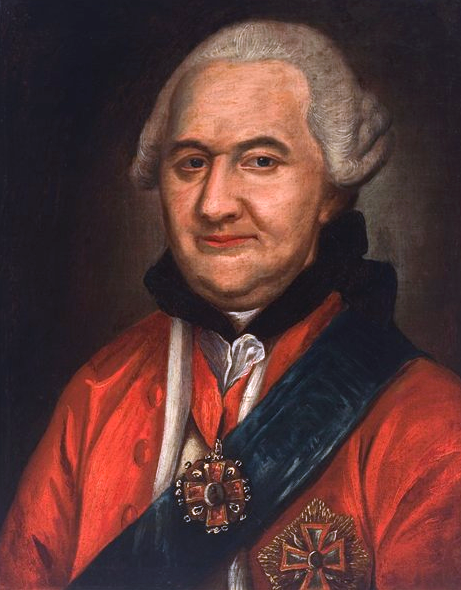 Jan Andrzej Borch